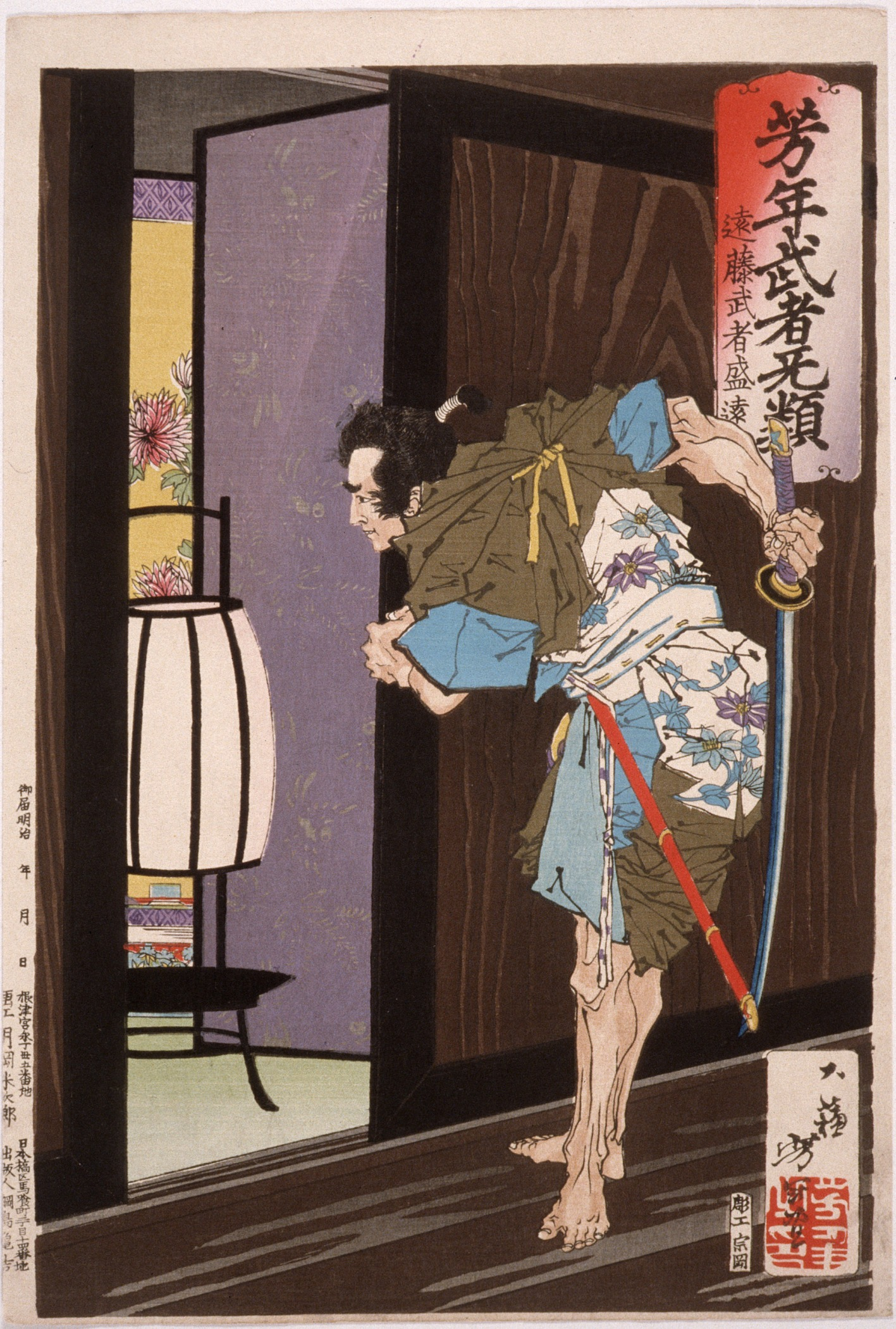 Japan, 1883, 12th month Series: Yoshitoshi's Warriors Trembling with Courage Prints; woodcuts Color woodblock Herbert R. Cole Collection (M.84.31.94) Japanese Art 渡辺渡の妻の袈裟御前を見て恋慕した遠藤盛遠は，御前を奪うためにその夫の寝間を襲った。それに気づいた御前は夫の身代わりになり盛遠に斬られる。恥じた盛遠は出家し文覚を名乗った。 Endo Moritoh(1139-1203) loved Kesa Gozen, the wife of WATANABE Wataru, who was his male cousin and worked together with him. Moritoh killed Wataru in his bedroom, but the dead body was Kesa's. She had smelled Moritoh's scheme and gotten into her husband's bed as a substitute to save him. Moritoh was ashamed of him behavior and entered into the priesthood. He became the famous priest Bunkaku.